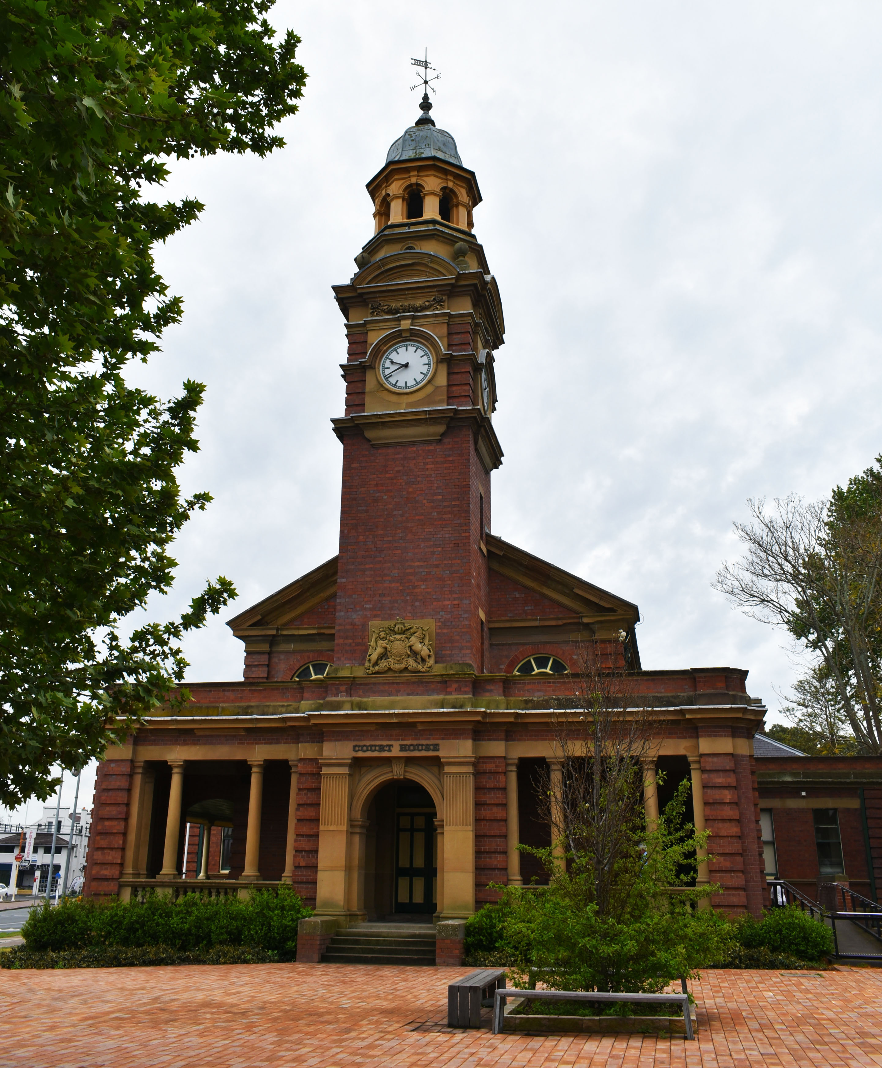 Maitland Courthouse has been associated with the provision of law and justice in the Hunter area since 1897. The extant building is the second courthouse built in the town, which has been an important centre for administration and justice in the Hunter area since the first half of the nineteenth century. The scale and grandeur of Maitland Courthouse is symbolic of the growing confidence in regional centres during the nineteenth century due to expansions in mining and agriculture. While the town was overtaken by Newcastle in terms of physical size and population by the twentieth century, Maitland has remained an important regional town. Maitland Courthouse demonstrates the shift from Victorian Classical to Federation architectural styles in public buildings in NSW. The combination of classical features, such as the central clock tower and sandstone entrance, and Federation features, such as the use of face brick and sandstone, demonstrates the transition of public building design by the Government Architect's Branch from the grand, classical-influenced works under James Barnet to a less monumental style under Walter Liberty Vernon with a clarity rare among courthouses in NSW. Maitland Courthouse is of State significance.